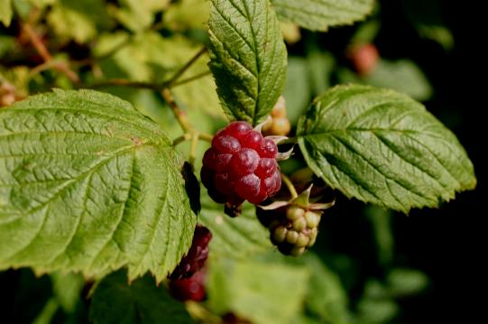 Rubus idaeus fruit and leaves